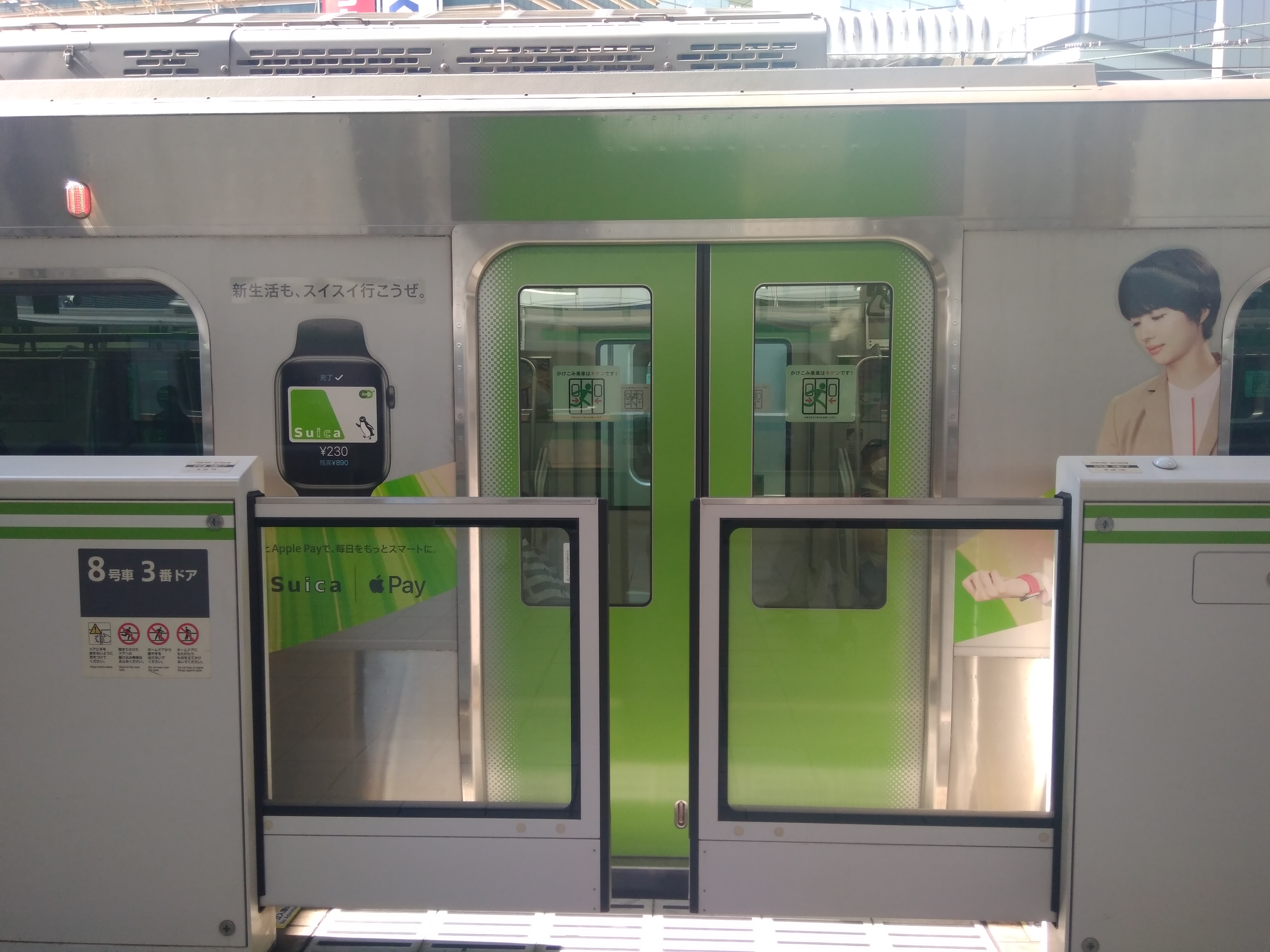 Platform door now standard at Yamanote Line stations